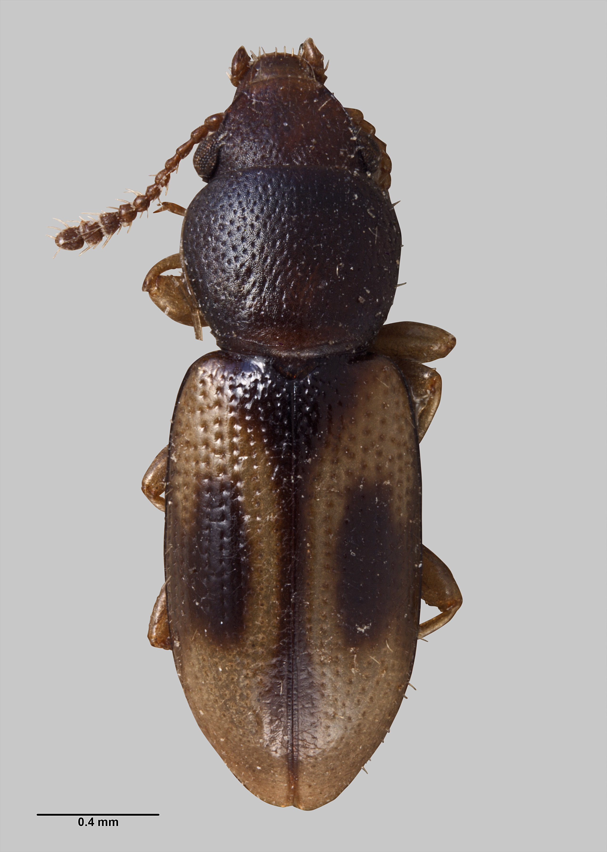 Close up view of Syntype specimen of Salpingus lepidulus AMNZ21845 held at Auckland War Memorial Museum.